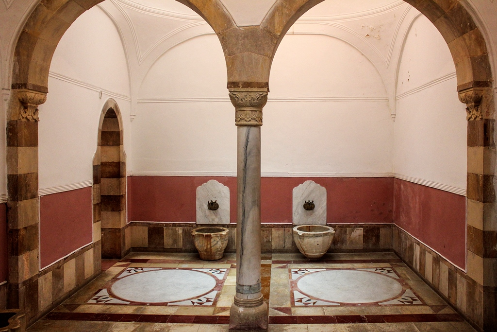 Beiteddine palace: Baths